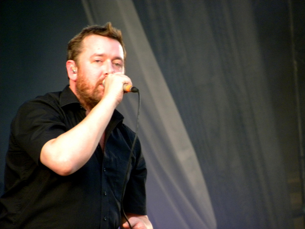 Guy Garvey of the Elbow band at the V Festival '09